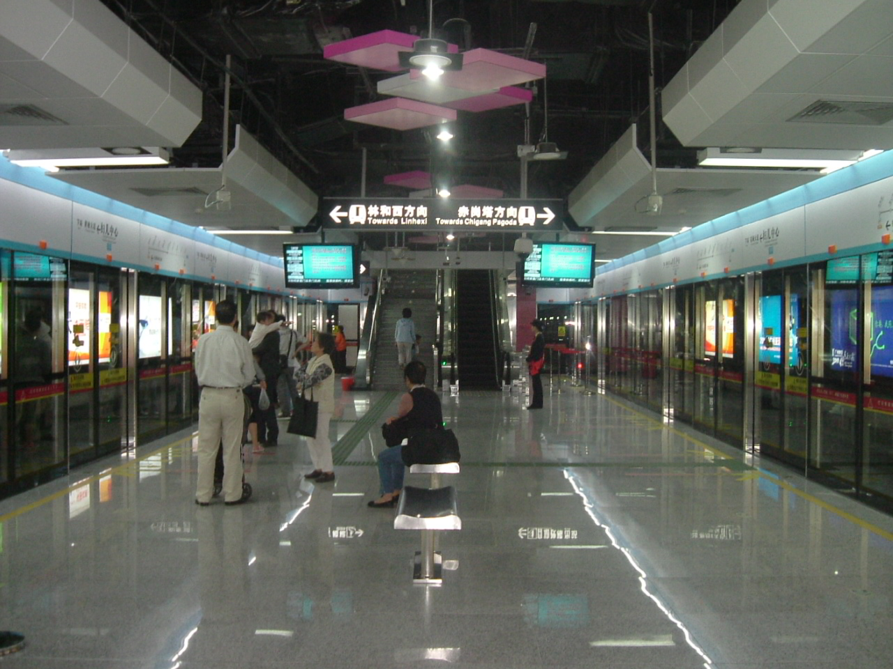 Guangzhou_Women_and_Children's_Medical_Center_Station_Site